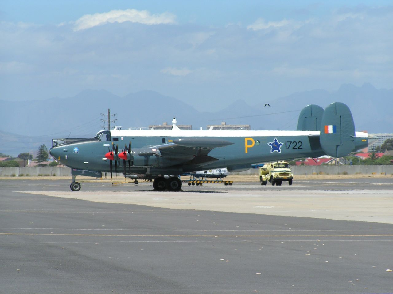 The Avro Shackleton Mk3 was decommissioned by the South African Air Force in 1984. It was used for maritime reconnaissance, anti submarine warfare and search and rescue missions along the southern African coast for a period of 26 years. Today, South Africa has the only airworthy Shackleton Mk.3 in the world! But with less than 50 hours flying time left - time is catching up very fast with no. 1722. Thanks to a handful of dedicated enthusiasts who ensure the pristine condition of this grand old lady of the sky - visitors to airshows are treated to at least two flying displays per year. It is based in Cape Town.